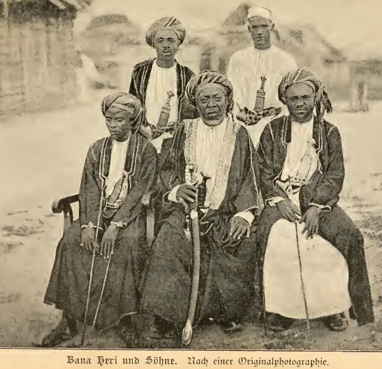 Sultan Bwana Heri of Saadani who fought with Abushiri (Bushiri) against the first stage of German colonialism in East Africa and later accepted their rule